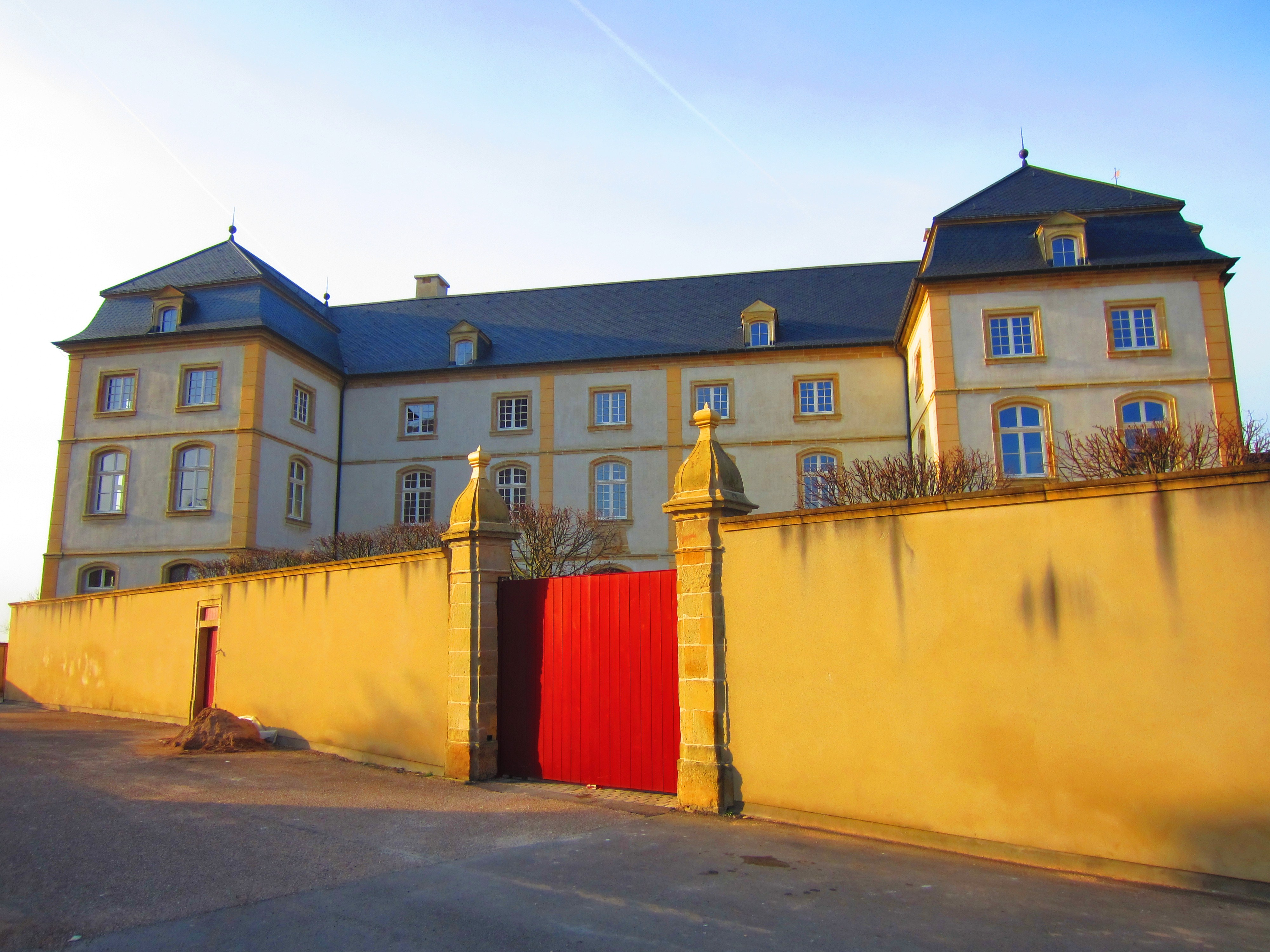 Berg Moselle castle abbés d'Echternach